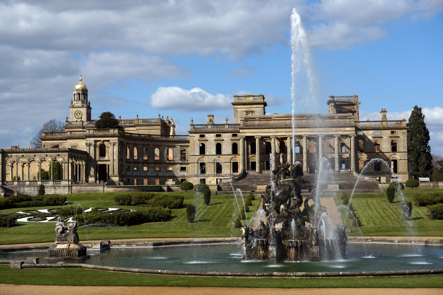 The ruins of Witley Court, Worcestershire, are in the care of English Heritage and open to the public